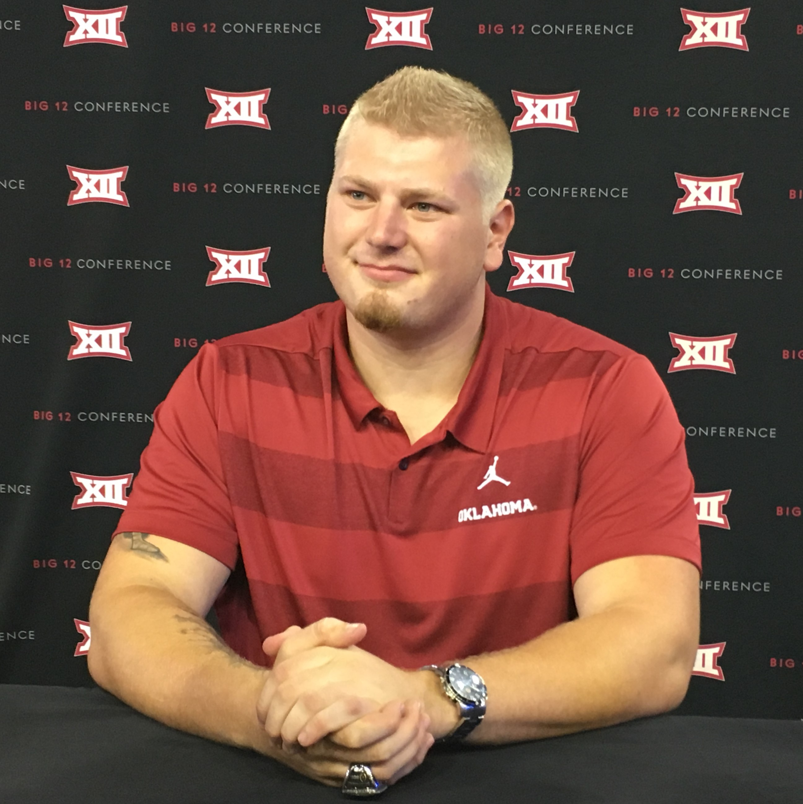 Ben Powers, offensive guard of the Oklahoma Sooners football team, at the 2018 Big 12 Conference Media Days in Frisco, Texas.